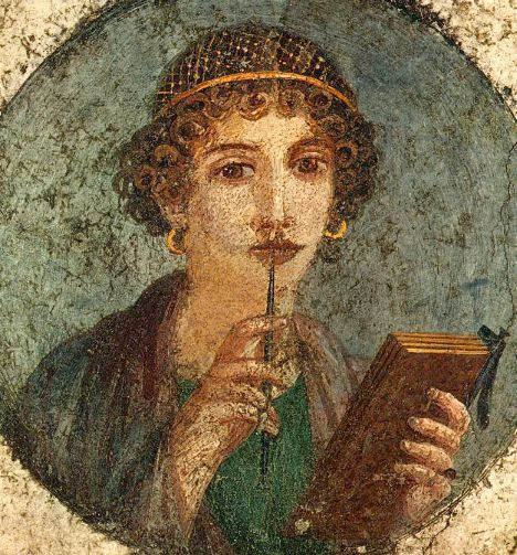 Tondo of Woman with wax tablets and stylus (so-called "Sappho"), National Archaeological Museum of Naples (inventory no. 9084). Roman fresco of about 50, from Pompeii (VI, Insula Occidentalis) - Discovered in 1760, is one of the most famous and beloved paintings, commonly called Sappho. Actually portrays a high-society Pompeian woman, richly dressed with gold-threaded hair and large gold earrings, bringing the stylus to the mouth and holding the wax tablets, notoriously accounting documents which therefore have nothing to do with poetry and even less with the famous Greek writer.